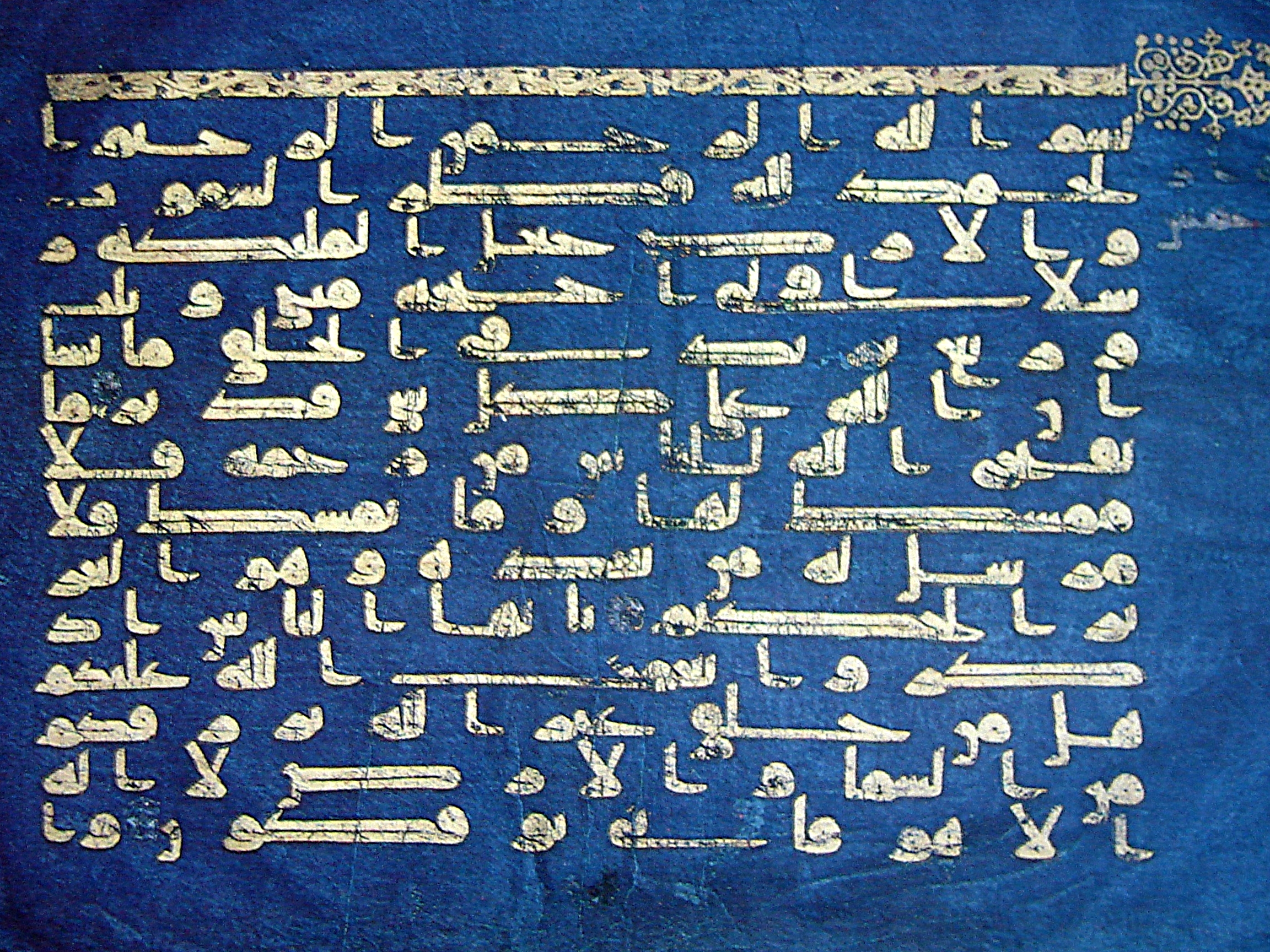 Part of Surat Fatir